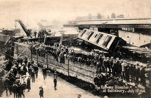 Postcard, "The Railway Disaster at Salisbury, July 1st, 1906", postally used 1906